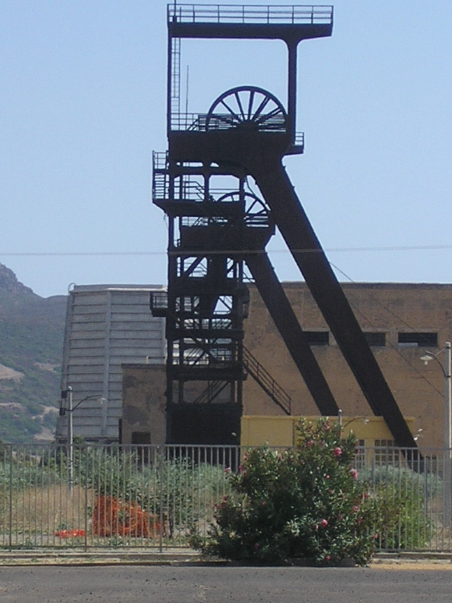 The towers of the elevators that leaded in the Serbariu coalmine, in Carbonia, Sardinia, Italy